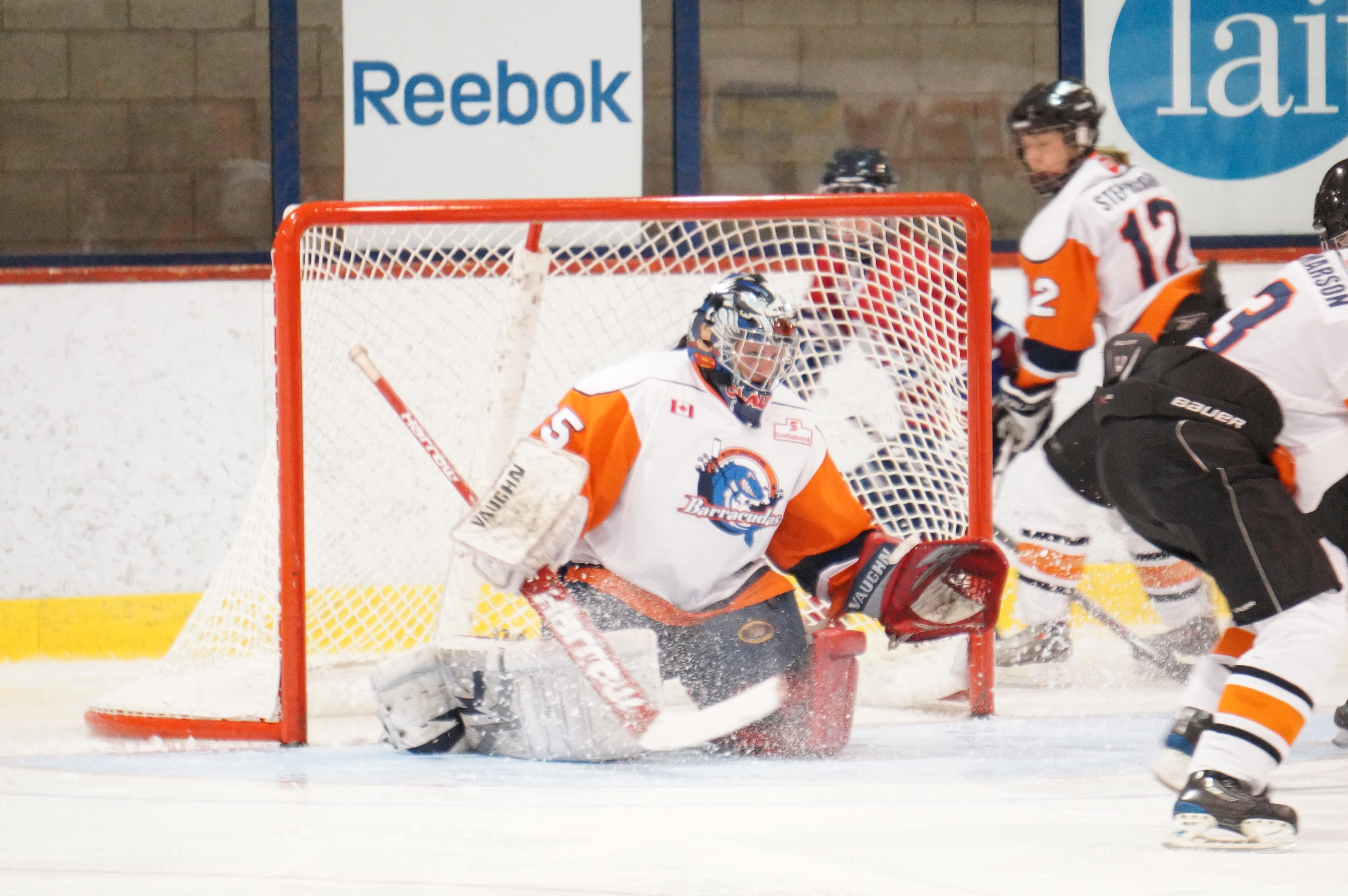 Burlington Barracudas, CWHL